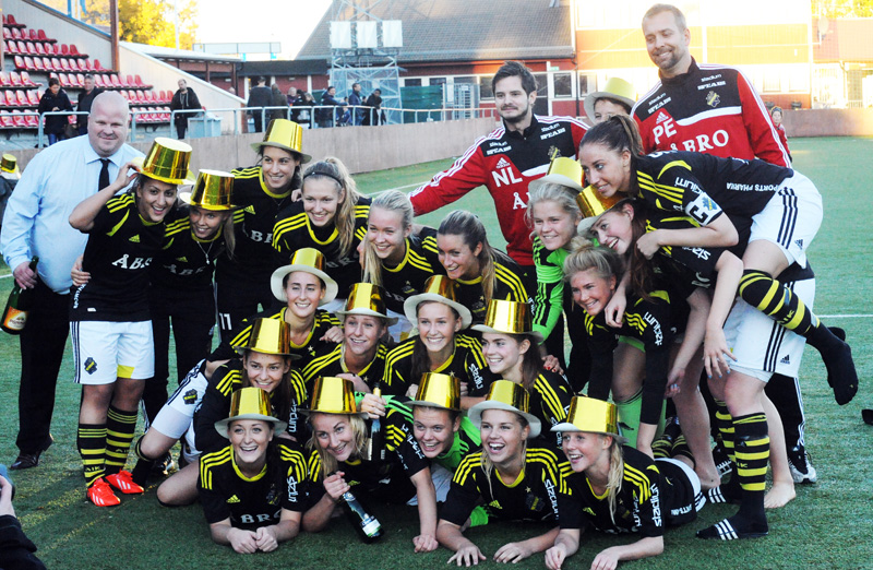 AIK's women's soccer team celebrate promotion to the Damallsvenskan in October 2013